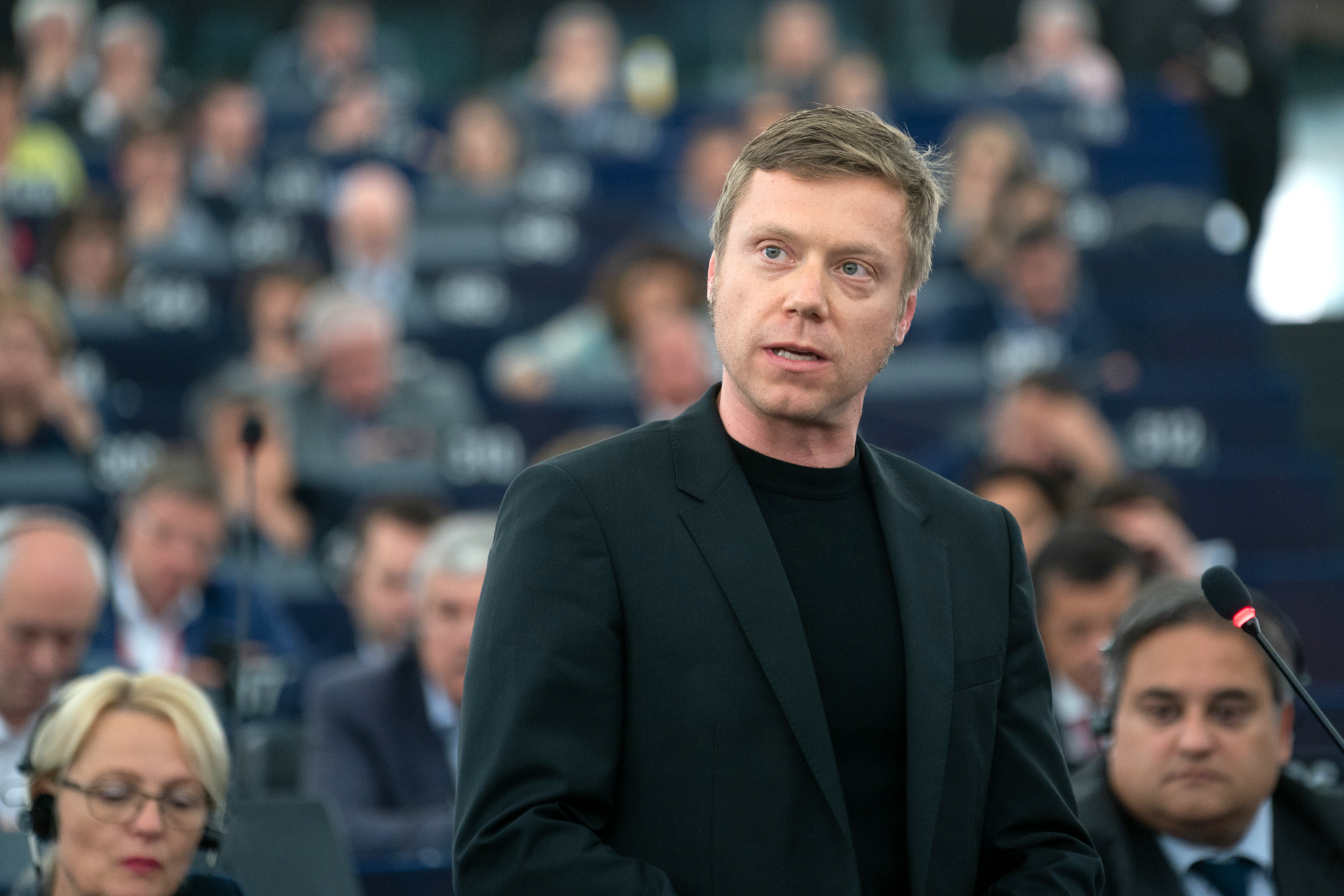 This photo is free to use under Creative Commons license CC-BY-4.0 and must be credited: "CC-BY-4.0: © European Union 2019 – Source: EP". No model release form if applicable. For bigger HR files please contact: webcom-flickr(AT)